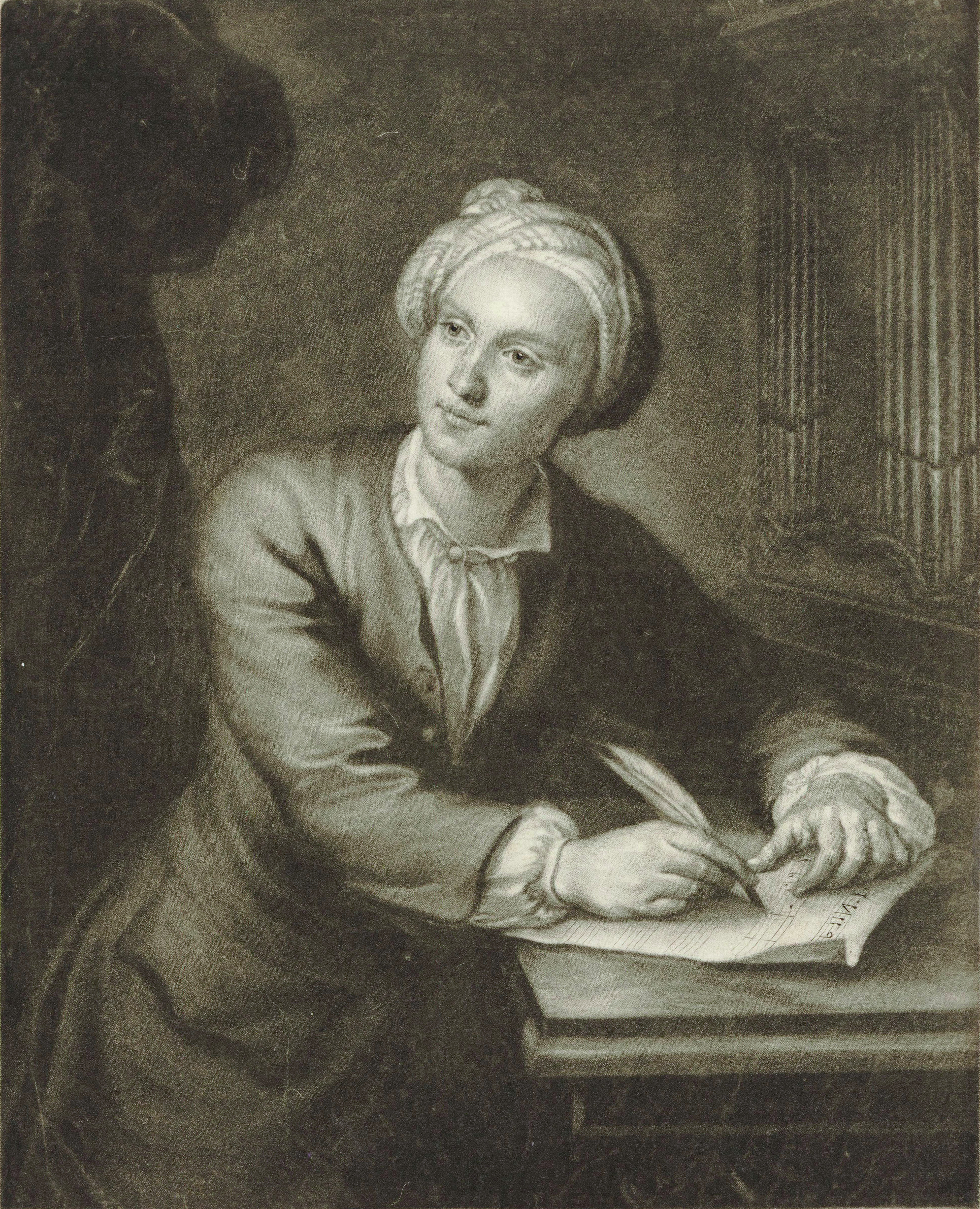 German-born English composer John Frederick Lampe (ca. 1703-1751). Mezzotint by James Macardell (1727-1765) after a painting by S. Andrea (?-?).